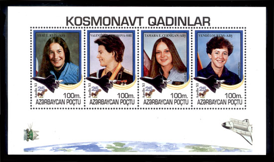 Stamp of Azerbaijan